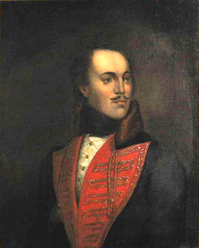 Portrait of Count Casimir Pulaski, American and Polish hero of independence, mortally wounded at the Battle of Savannah, Georgia, on October 10, 1779. Museum collection. Author unidentified.